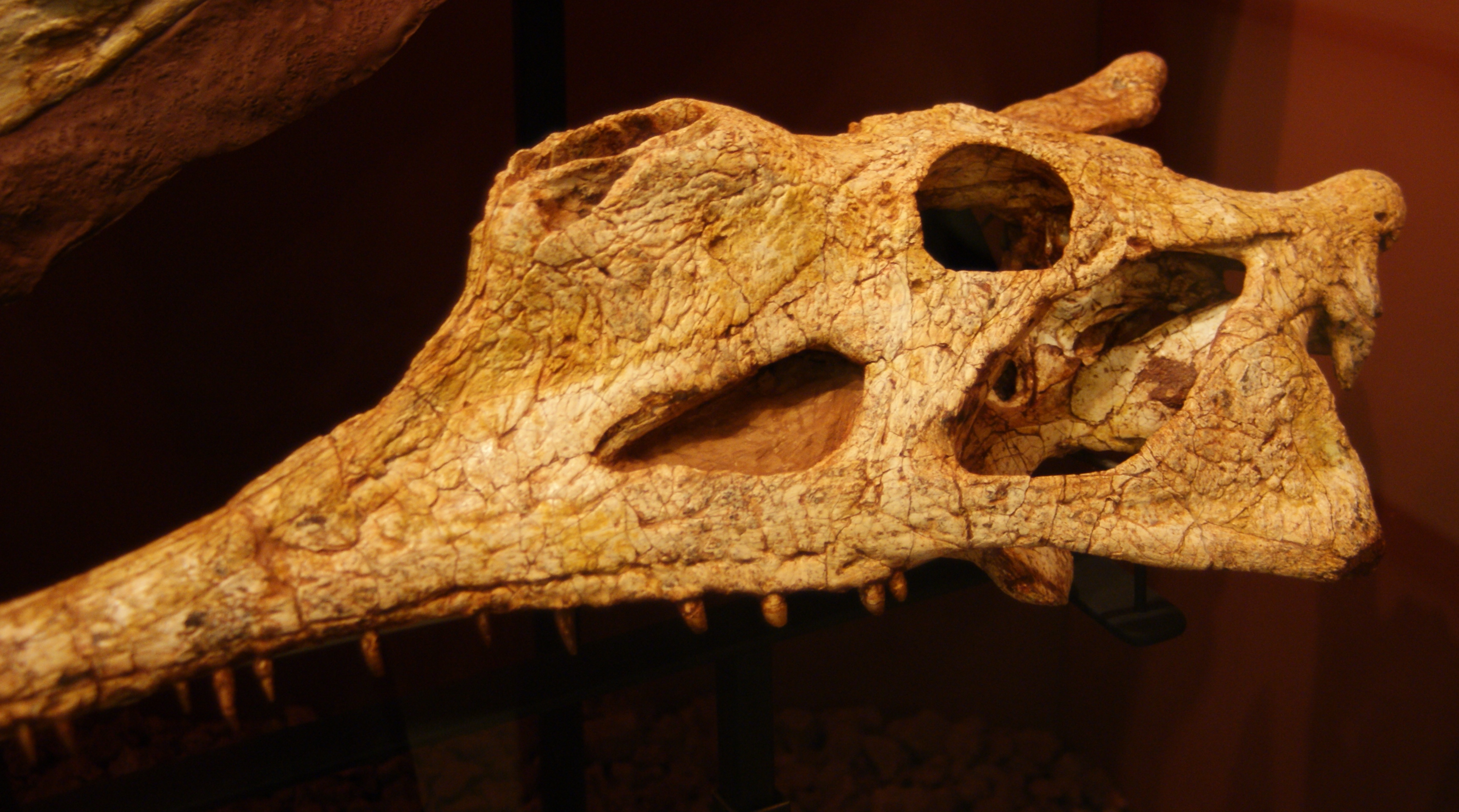 At the Museum of Texas Tech University. Formerly labeled as Pseudopalatus, but see: Axel Hungerbühler, Bill Mueller, Sankar Chatterjee and Douglas P. Cunningham. 2012. "Cranial anatomy of the Late Triassic phytosaur Machaeroprosopus, with the description of a new species from West Texas." Earth and Environmental Science Transactions of the Royal Society of Edinburgh 103(3-4): 269 - 312.